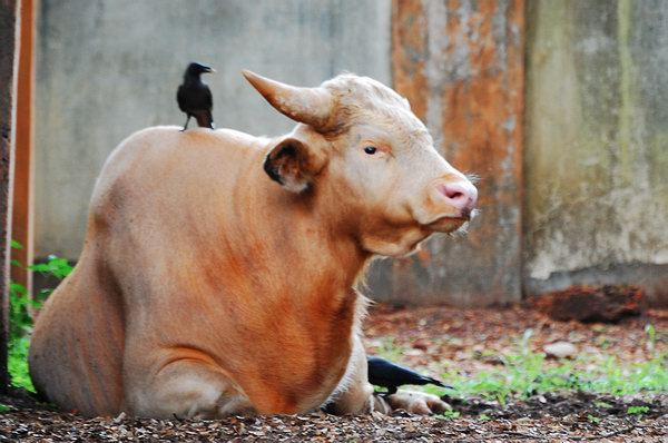 Gayal or mithun (Bos frontalis) is the domestic gaur, probably a gaur-cattle hybrid breed.